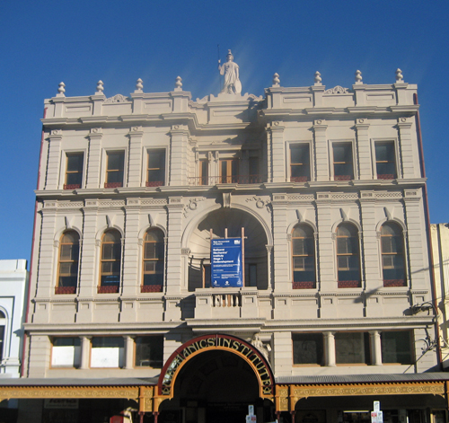 Ballarat Mechanics Institute Sturt St Ballarat Victoria Australia